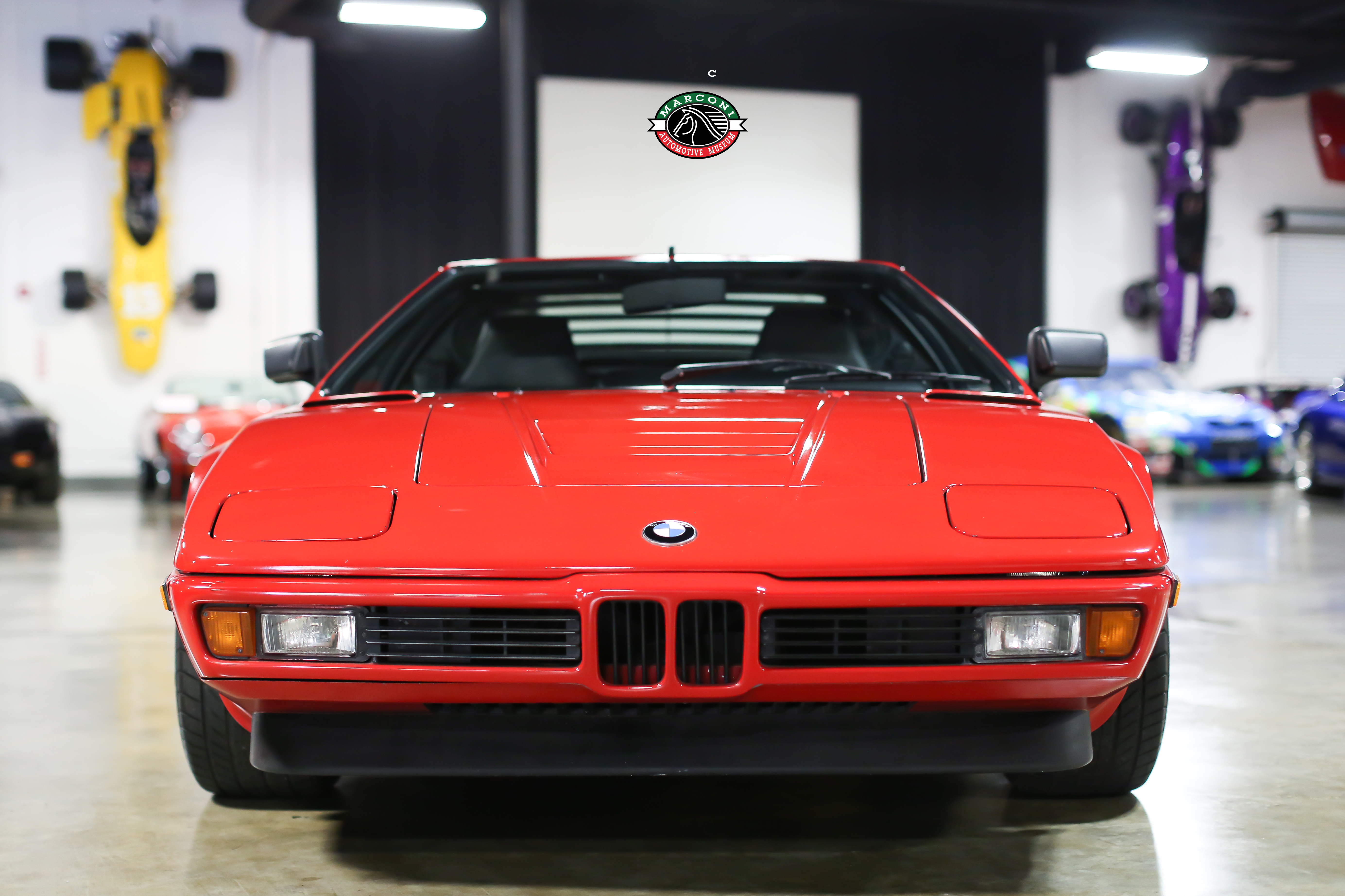 The BMW M1 at the Marconi Automotive Museum